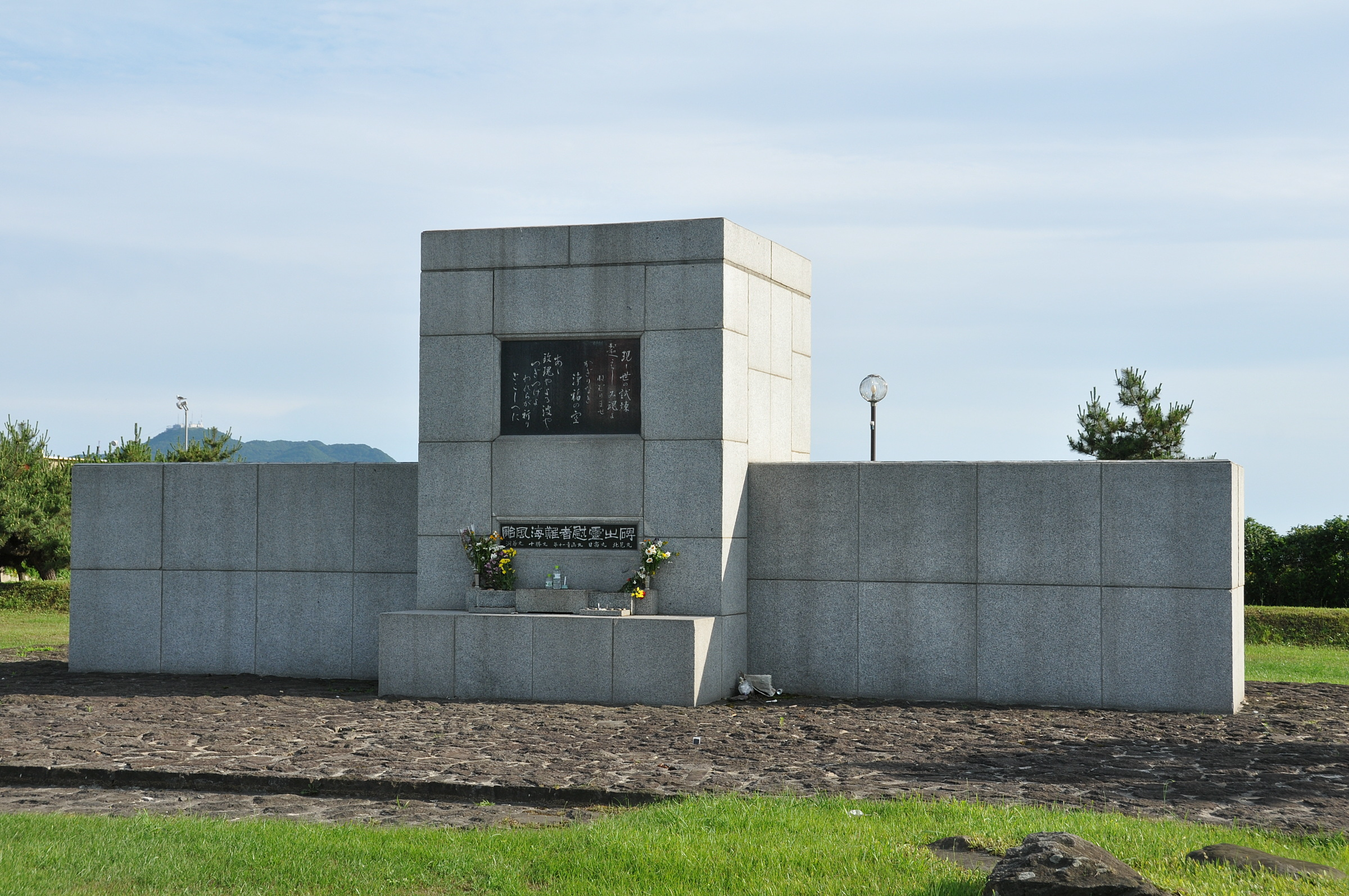 The memorial monument of the Toya Maru Disaster (Nanaehama, Hokuto city, Hokkaido, Japan)